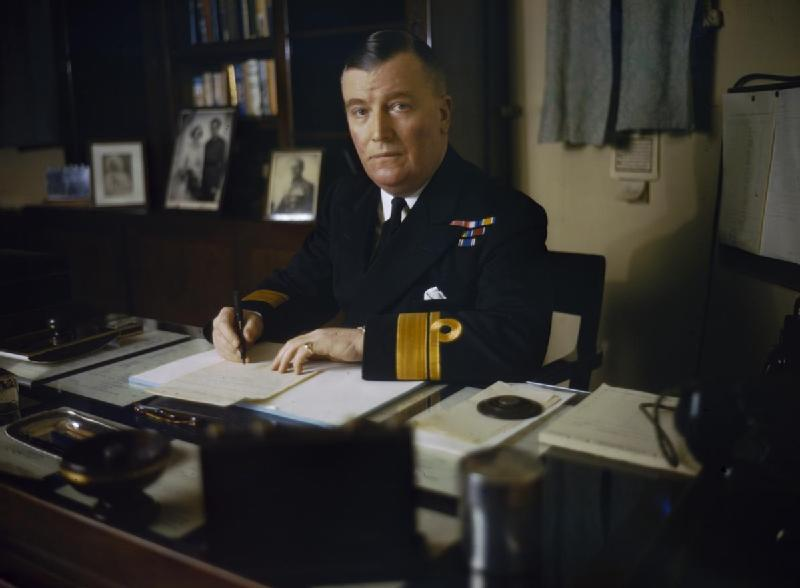 Rear Admiral Sir Robert L Burnett, November 1942 Rear Admiral Sir R L Burnett, CB, OBE, sitting at his desk. (Photograph was probably taken on board HMS TYNE when Rear Admiral Burnett was in command of Home Fleet Destroyers).